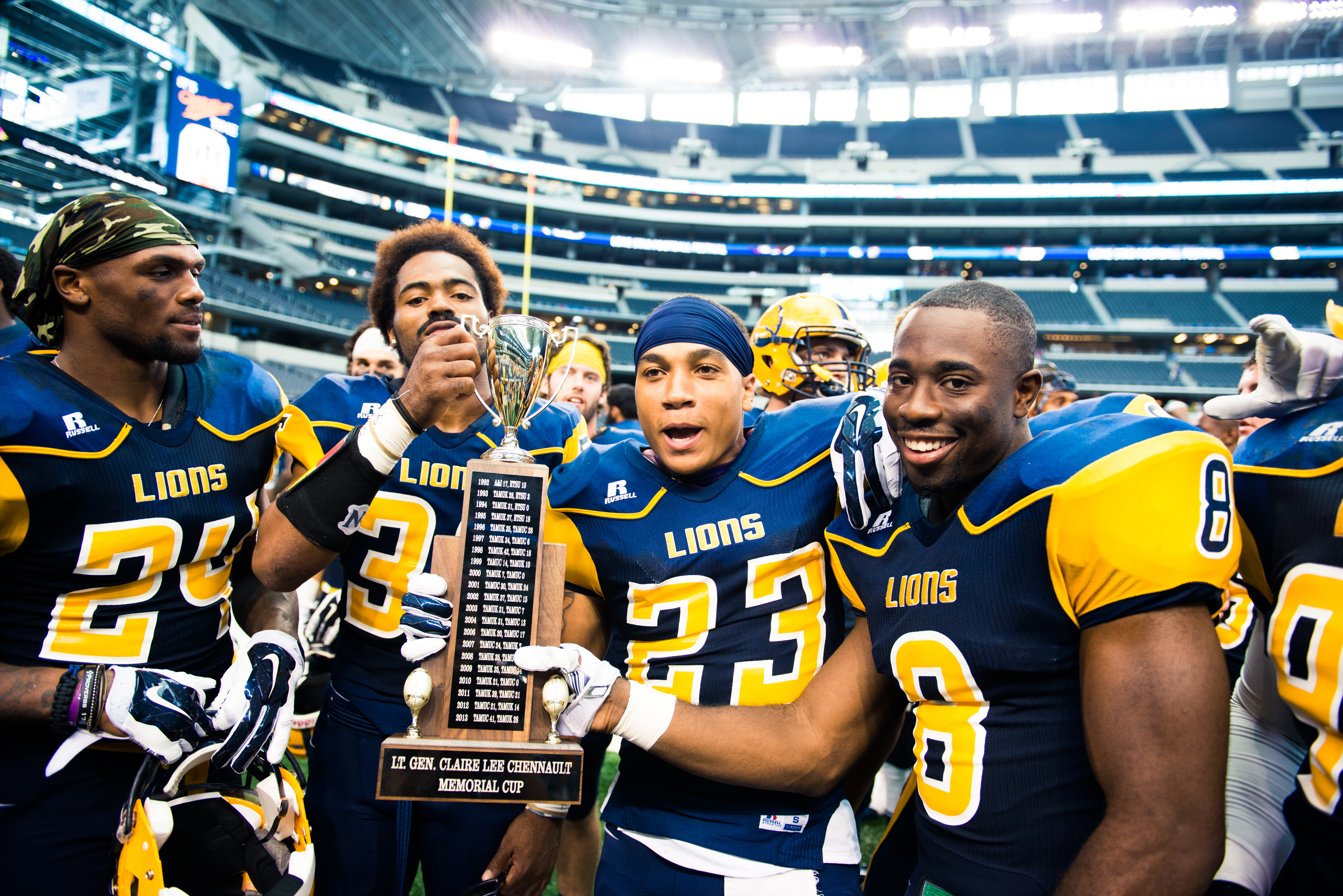 14453-LSC Football Festival-6522.jpg Scenes from the Texas A&M–Kingsville Javelinas vs. Texas A&M–Commerce Lions football game at AT&T Stadium in Arlington on September 20, 2014.